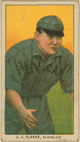 Nig Clarke in 1909-10